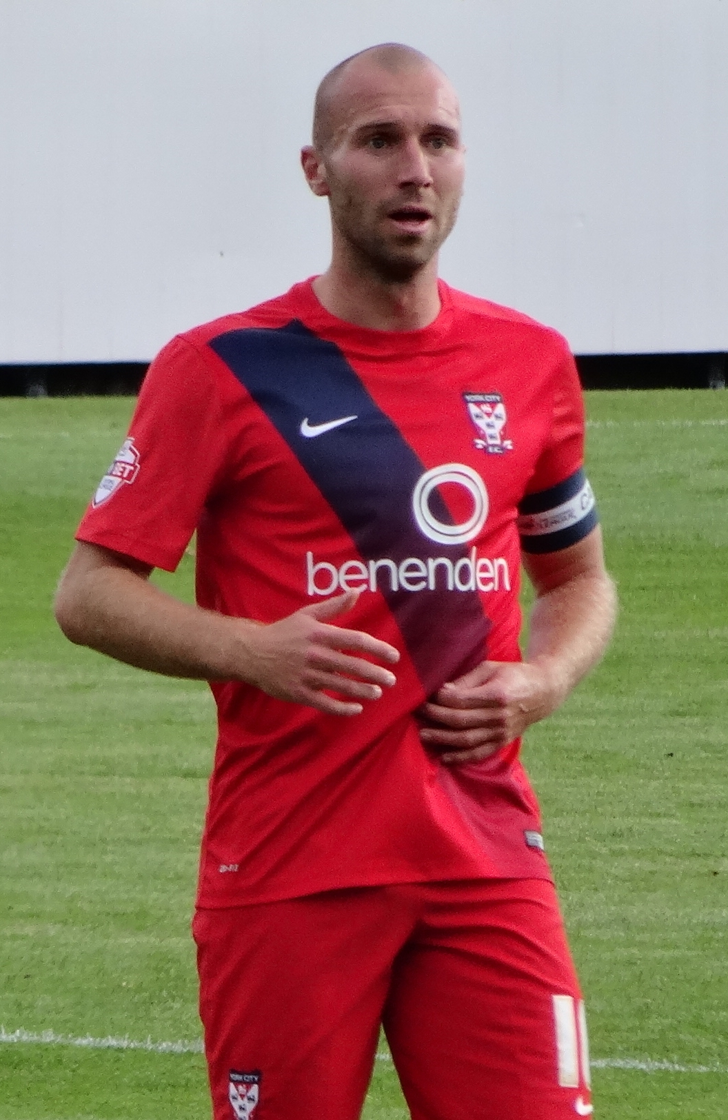 Russell Penn playing for York City against Carlisle United at Bootham Crescent, York on 19 September 2015